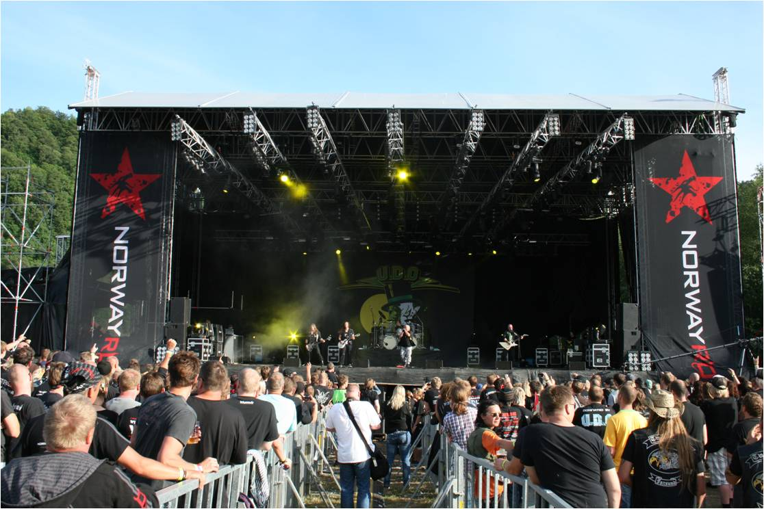 The mainstage at Norway Rock Festival, Kvinesdal, Norway 2010